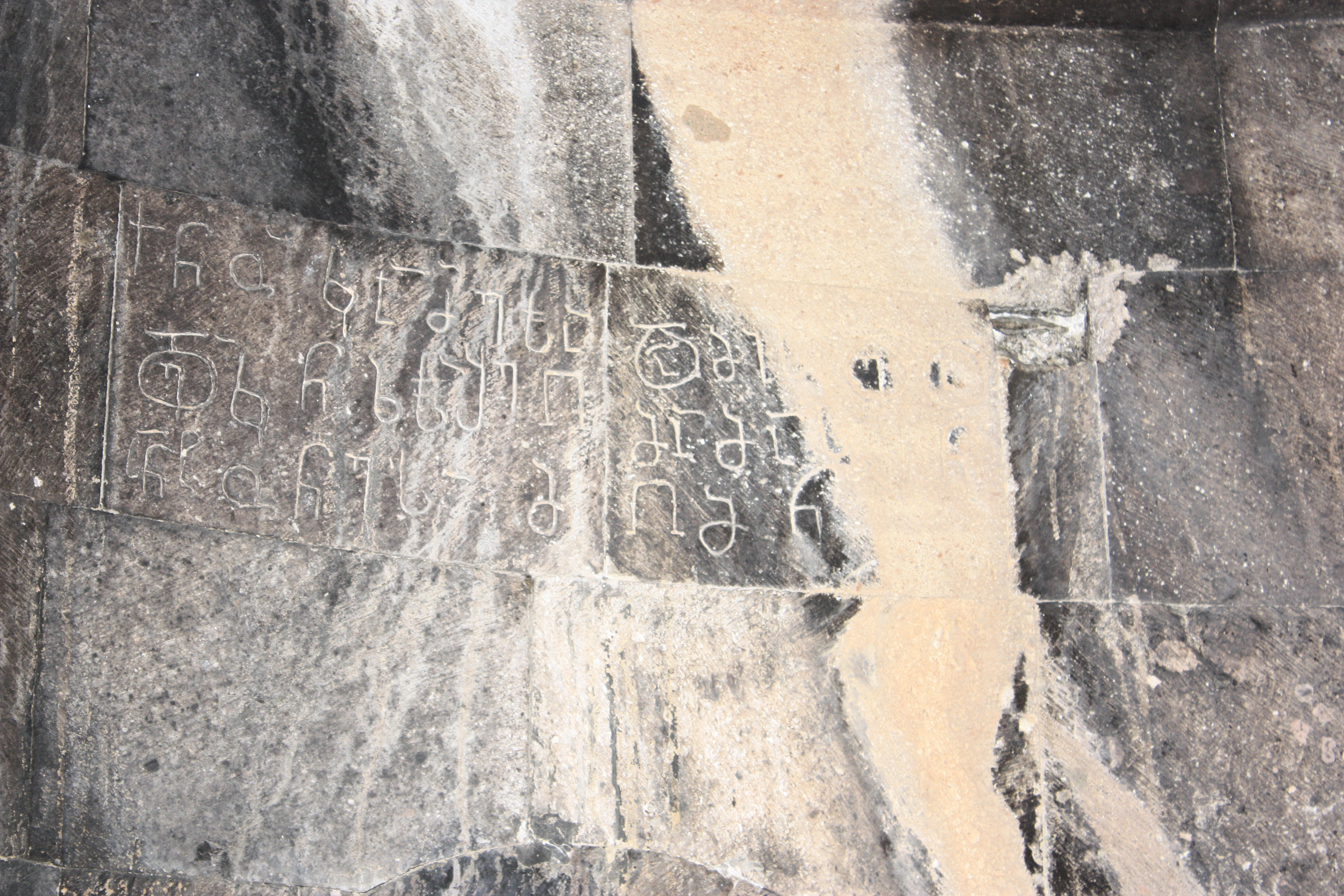 Georgian cathedral Khandzta in historical Georgian region Tao-Klarjeti